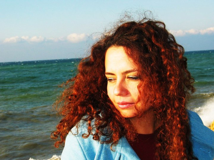 the picture of the poet next to the sea in Lebanon